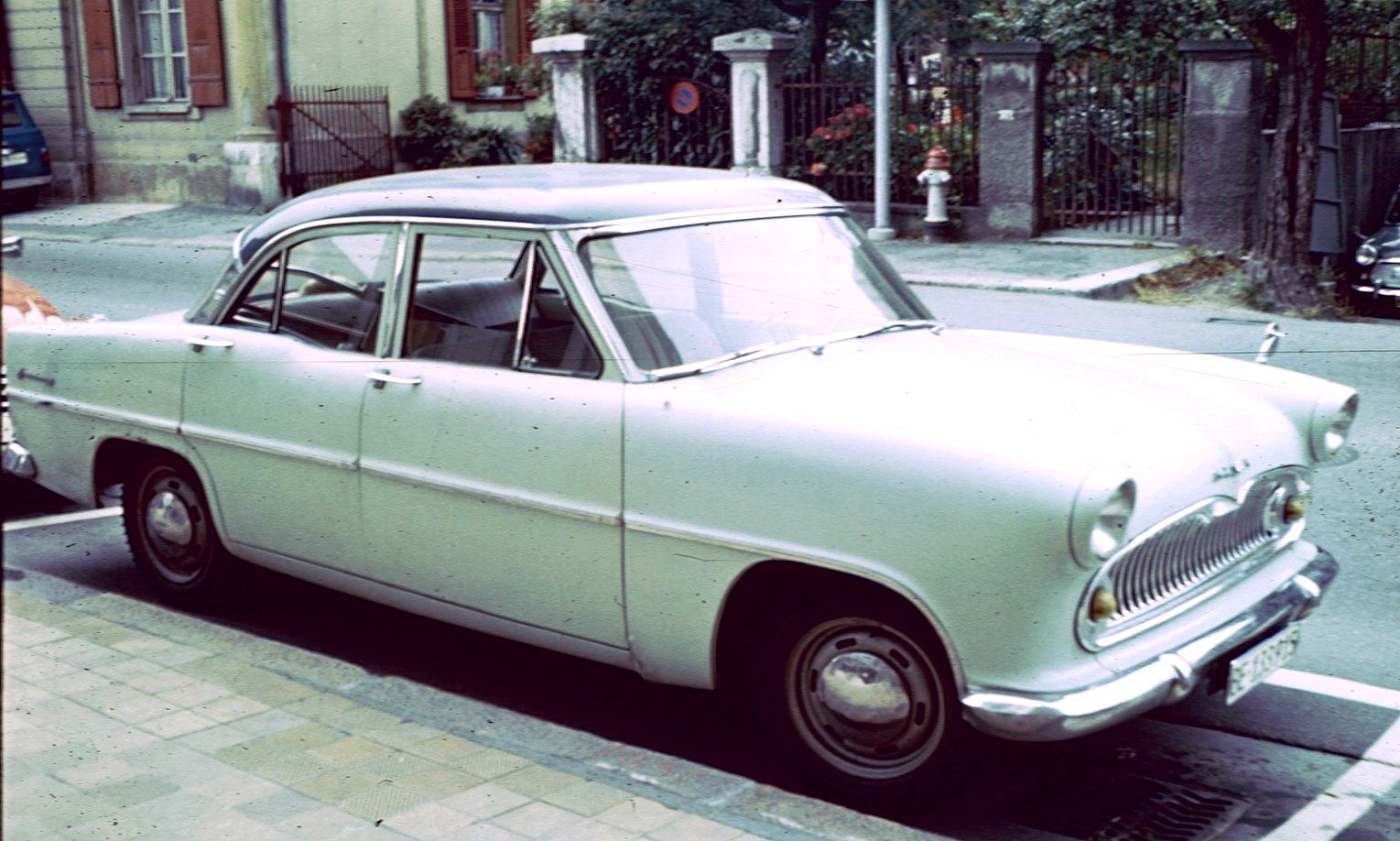 Large Simca (based on former Ford design) from Berne